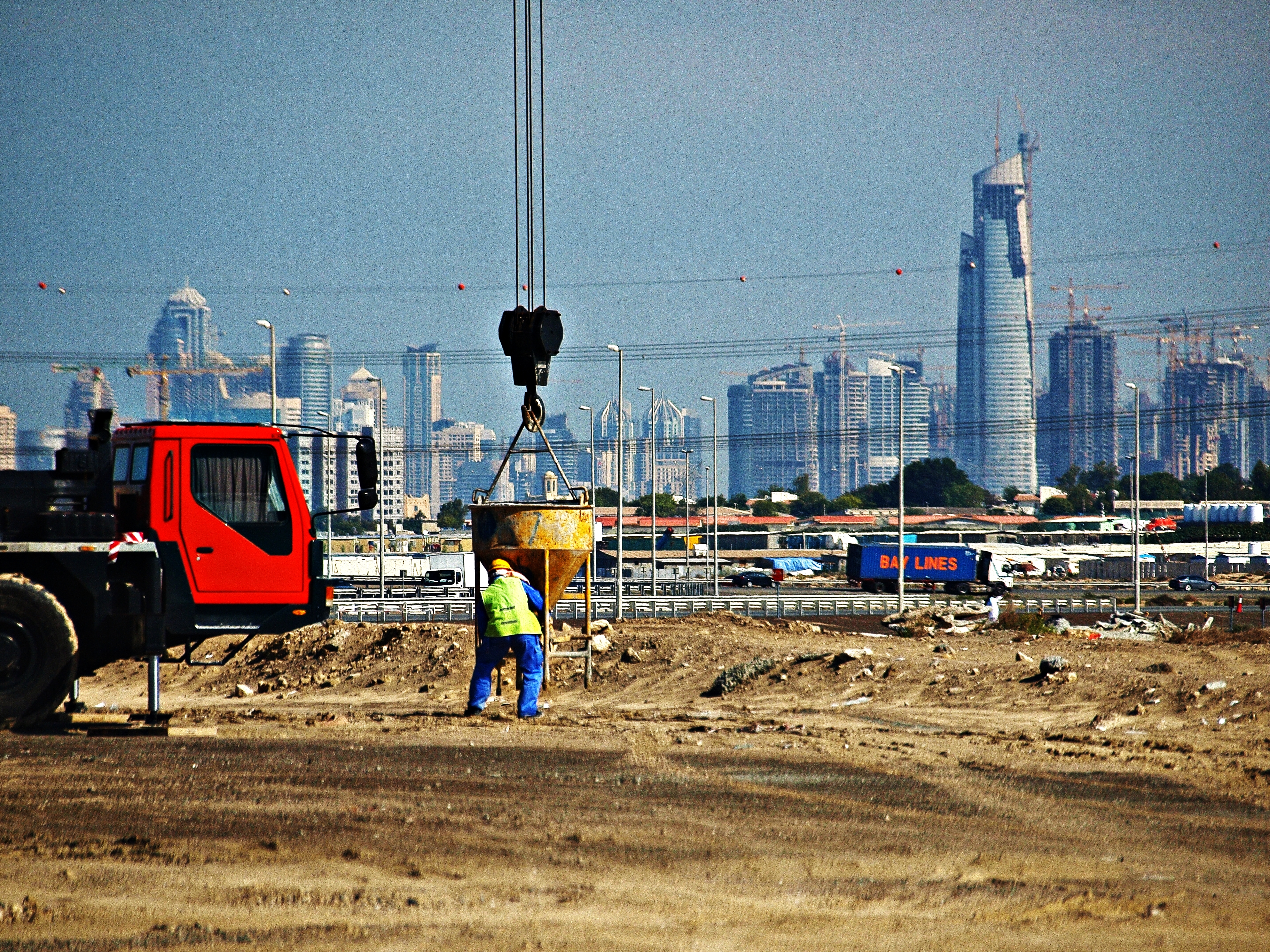 Dubai Marina in background, Mina Jebel Ali in foreground. Construction is ubiquitous in Dubai, UAE.